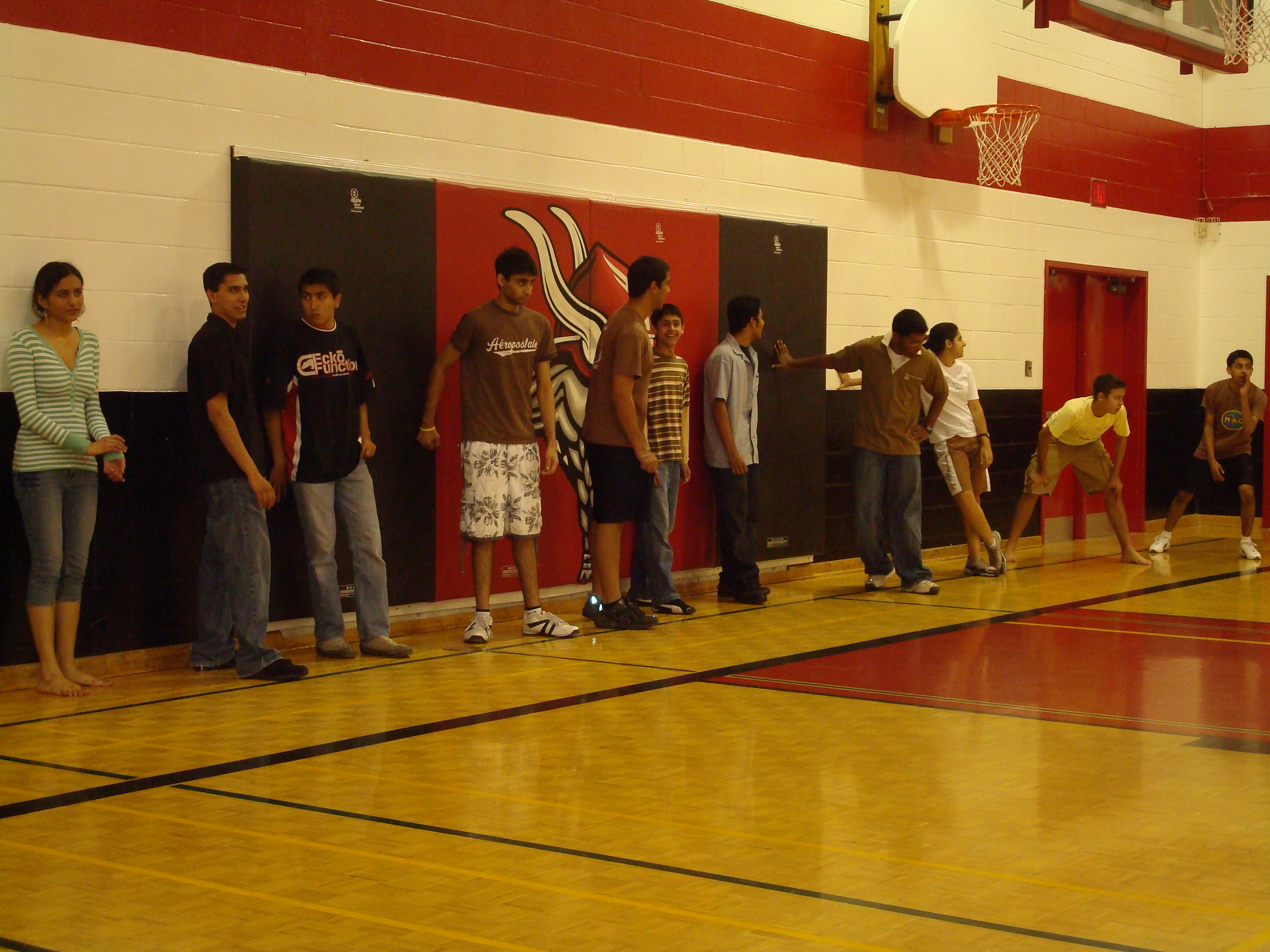 dodgeball game 2008